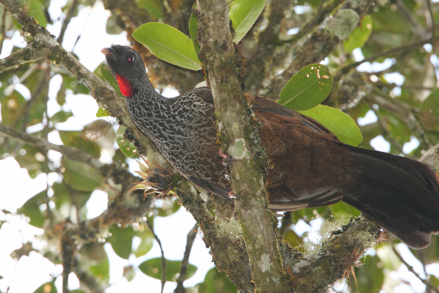 Andean guan (Penelope montagnii), Guango Lodge, Ecaudor